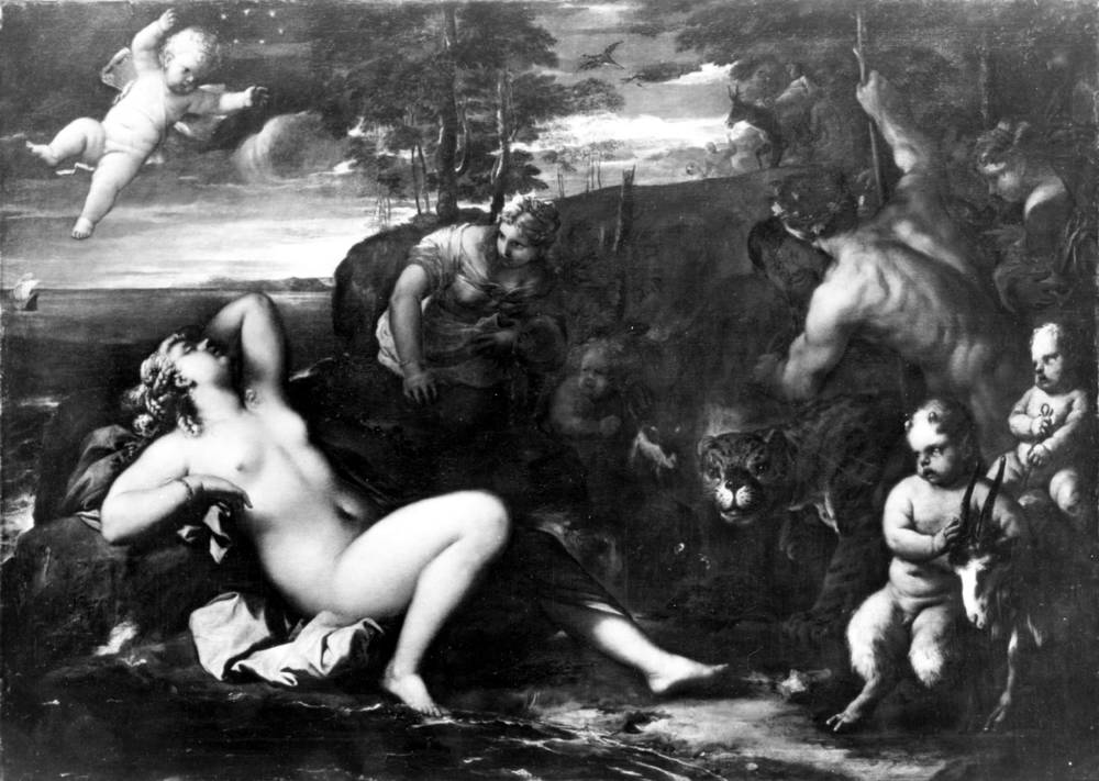 'Ariadne surprised by Bacchus', by Luca Giordano. This painting was part of the collections of the Gemäldegalerie Alte Meister in Dresden and and it has been missing since the end of World War II, in 1945. - Dimensions: 182 x 259 cm - Oil painting on wood